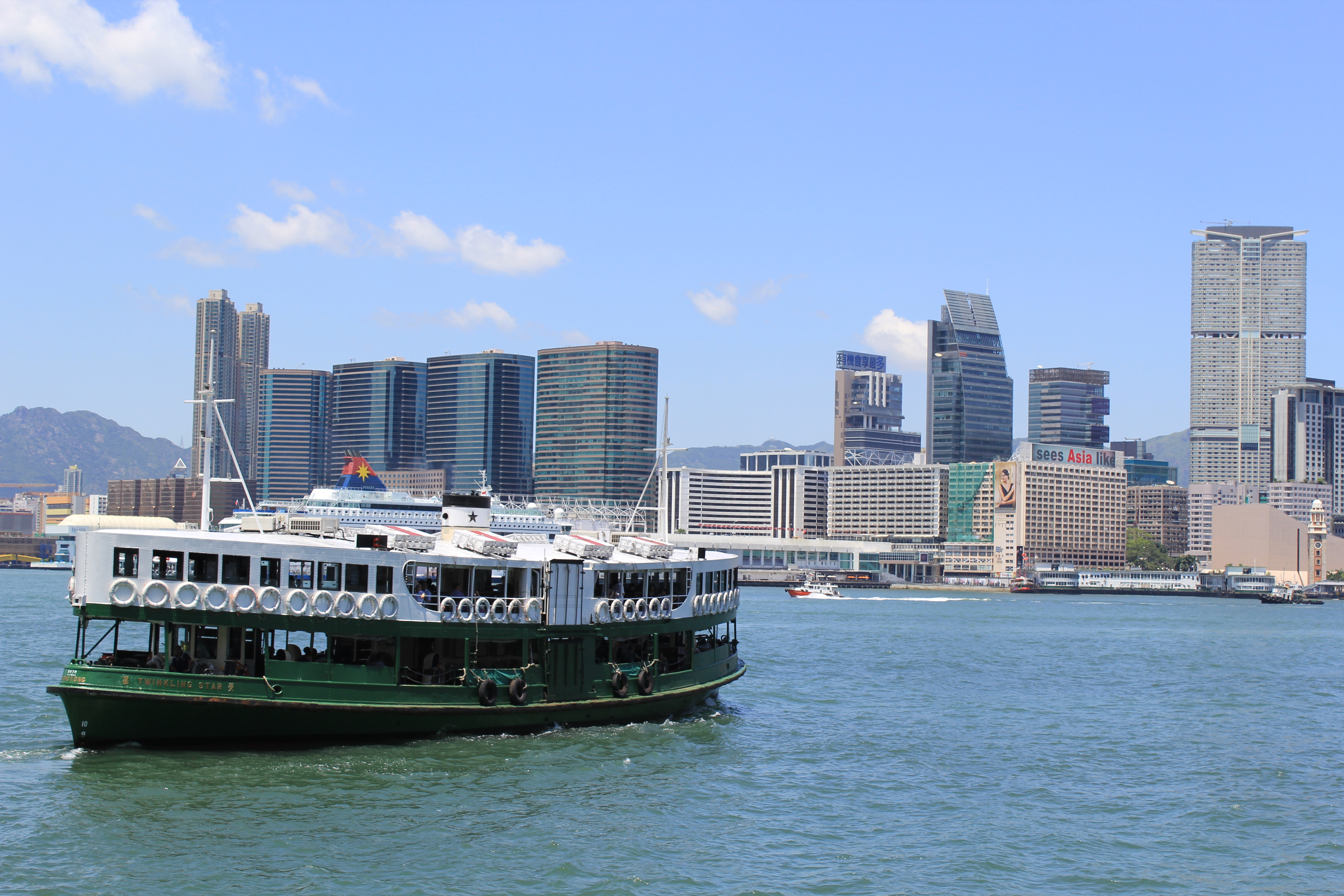 View from Star Ferry's Harbour Tour